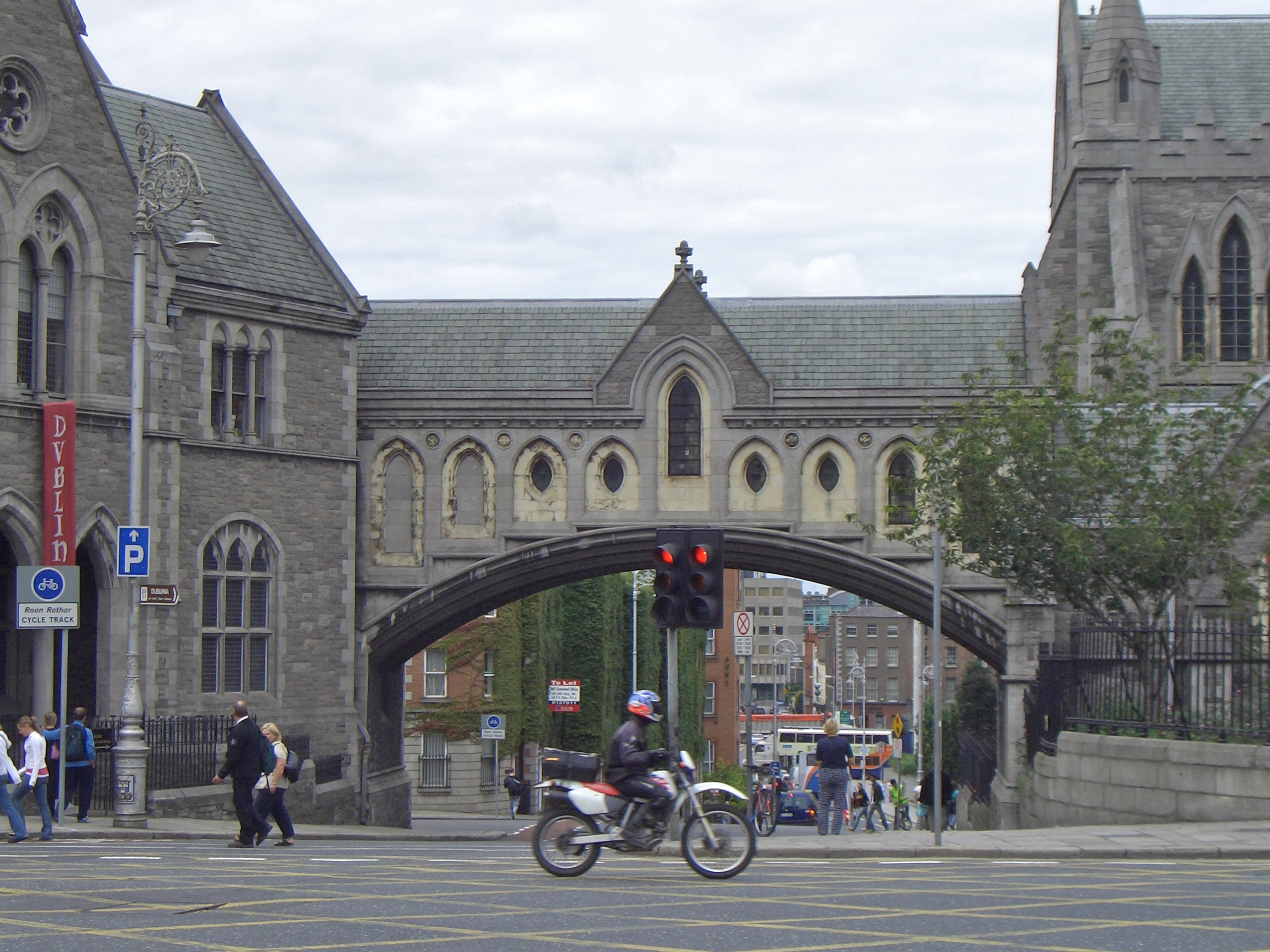 Bridge of Christ Church Cathedral, Dublin, Ireland